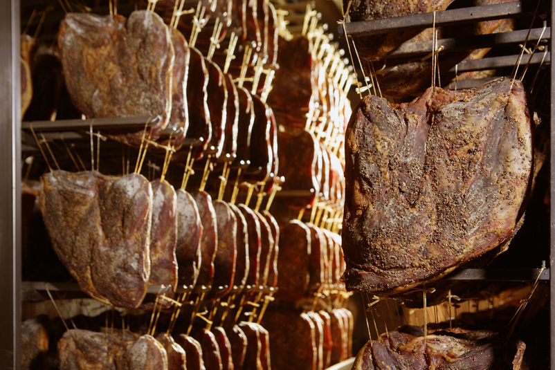 Curing - Production of Speck Alto Adige P.G.I.